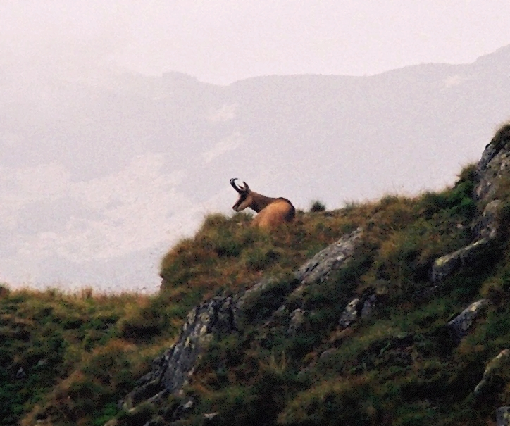 Rupicapra rupicapra Tatra mountains released in 2005 by author M. Betley